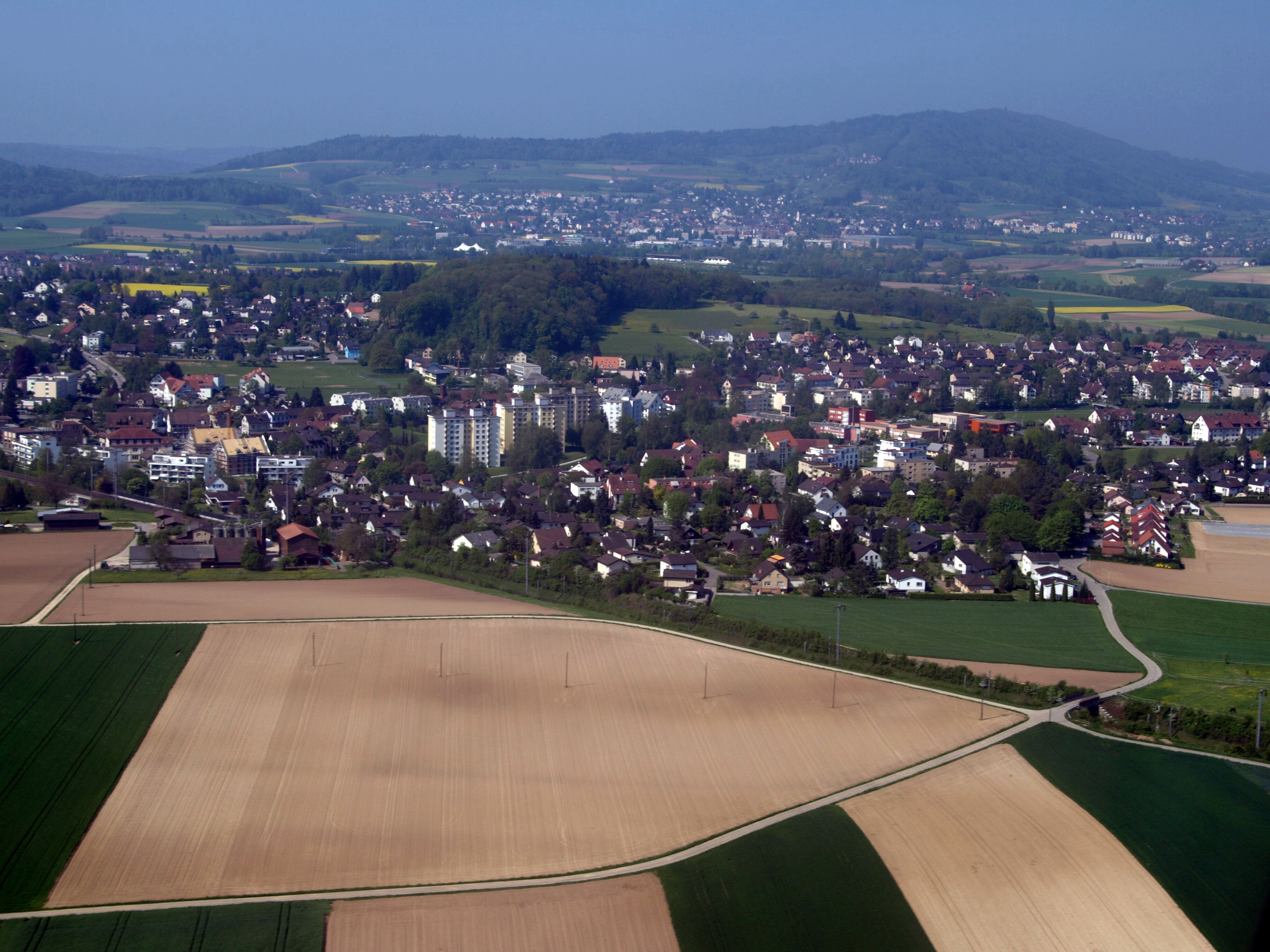 Aerial view of Niederglatt ZH, Switzerland. Taken from a plane that was about to land at Zürich Airport.